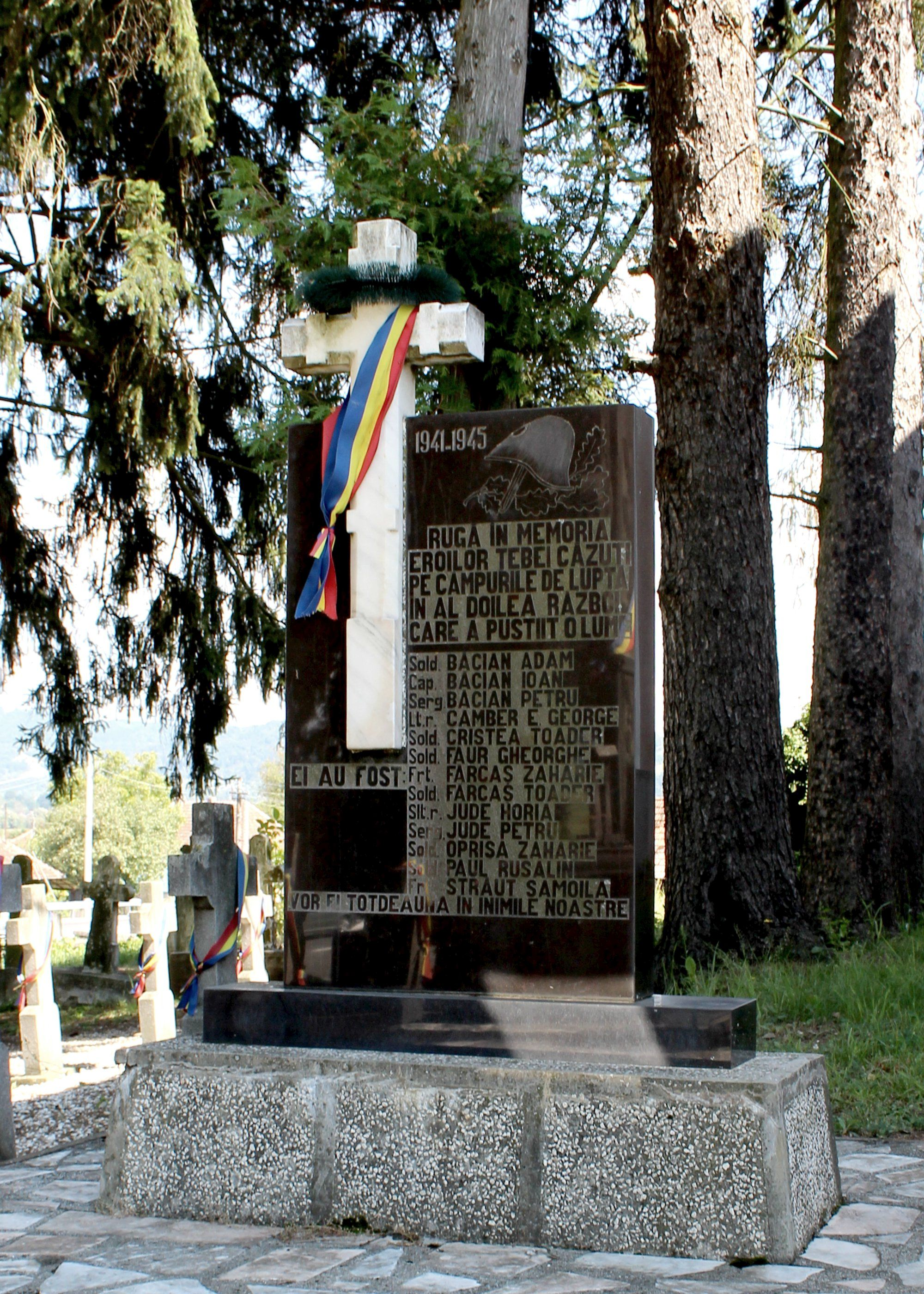 WW2 Heroes Memorial, Țebea, Hunedoara, Romania